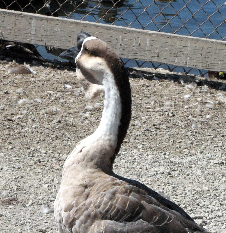 An African breed goose.